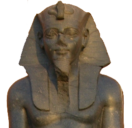 Cropped and rotated version (2.5 degree clock-wise) of original image found on Wikimedia Commons at Head and shoulders image suitable for use in pharaoh infobox, with background knocked out.